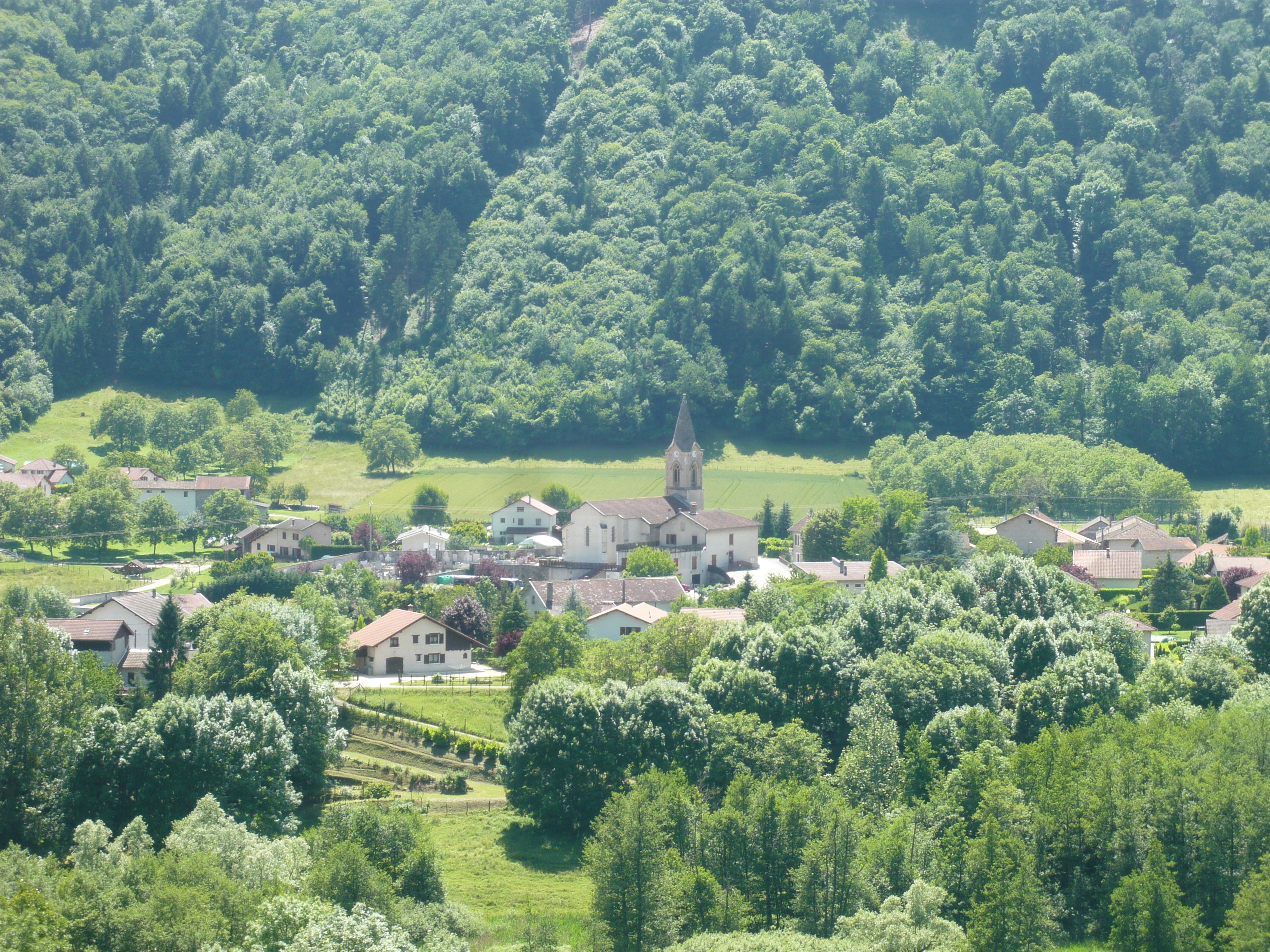 View of Macherin, the main hamlet of the commune of Saint-Nicolas-de-Macherin (France). June 2012